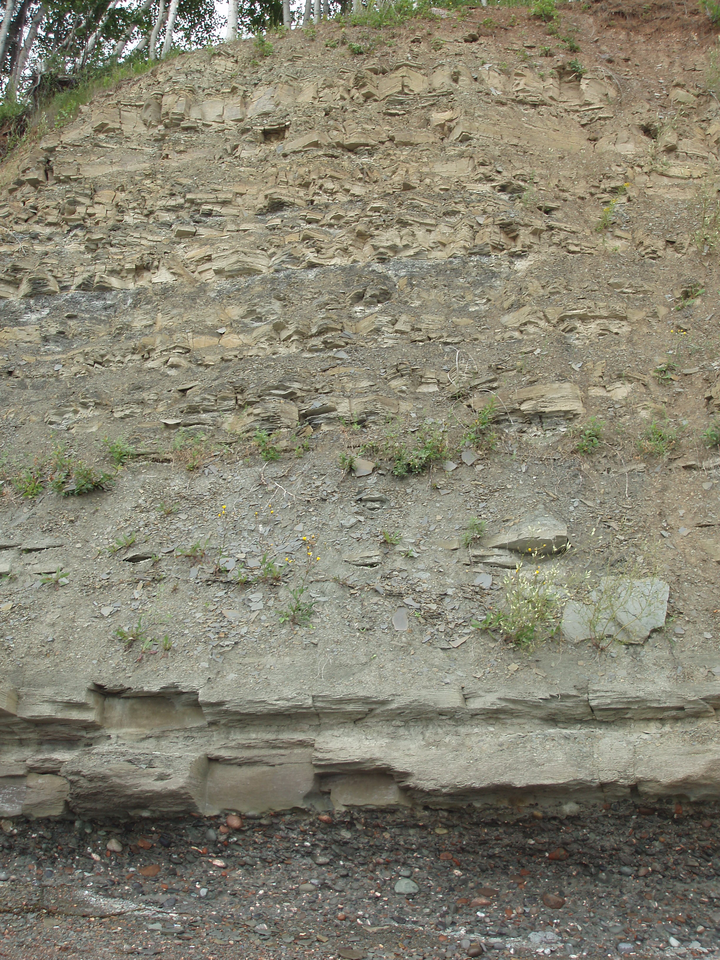 Parc national de Miguasha (Québec), affleurement de la base de la série dévonienne riche en fossils de poisson. Miguasha National Park (Québec), bottom of the Devonian beds that are rich in fish fossils.